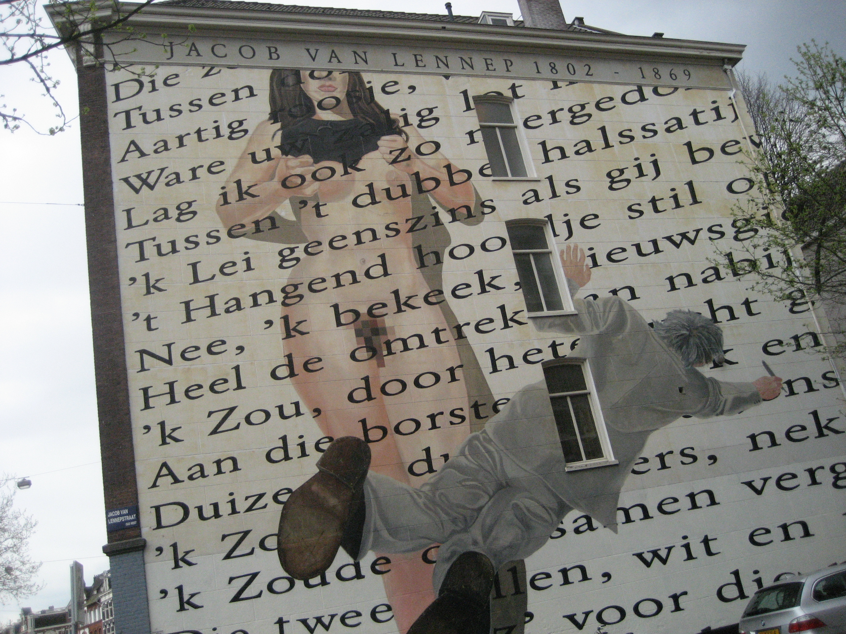 Wall poem Aan een Roosje (To a Rosie) by Jacob van Lennep (1802-1868). Location: Jacob van Lennepstraat / Nassaukade, Amsterdam (The Netherlands). Artist: Rombout Oomen, painted in 2004. Complete text of the poem can be found here. Pixelization of the pubic hair of the woman was done by the artist himself, in October 2004.